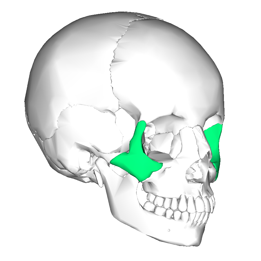 Zygomatic bone (shown in green).